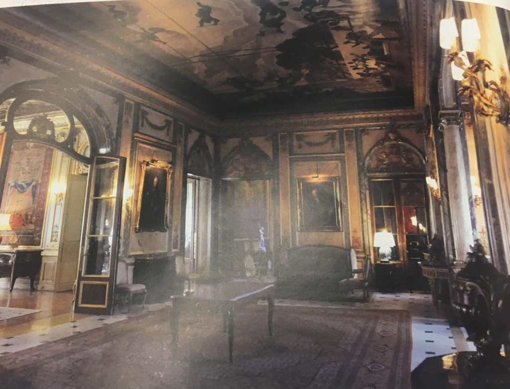 Pereda Palace